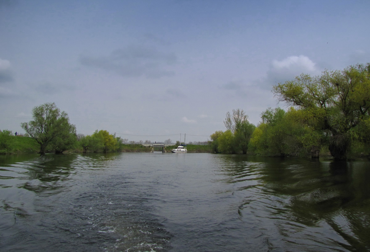 Ово је фотографија заштићеног природног добра у Србији под шифром: РП15 This is a a photo of a natural area in Serbia with ID: РП15 Ivanovo Serbia